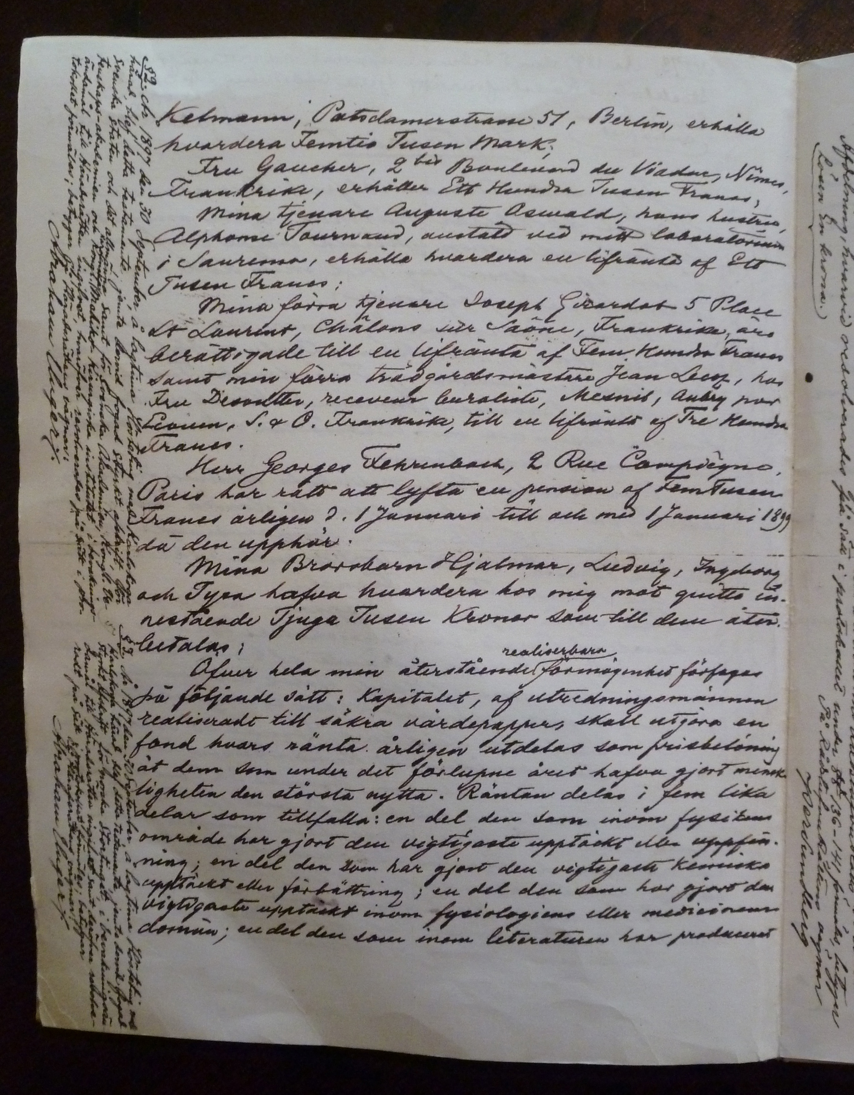 Alfred Nobel's will, 27 November 1895, page 2